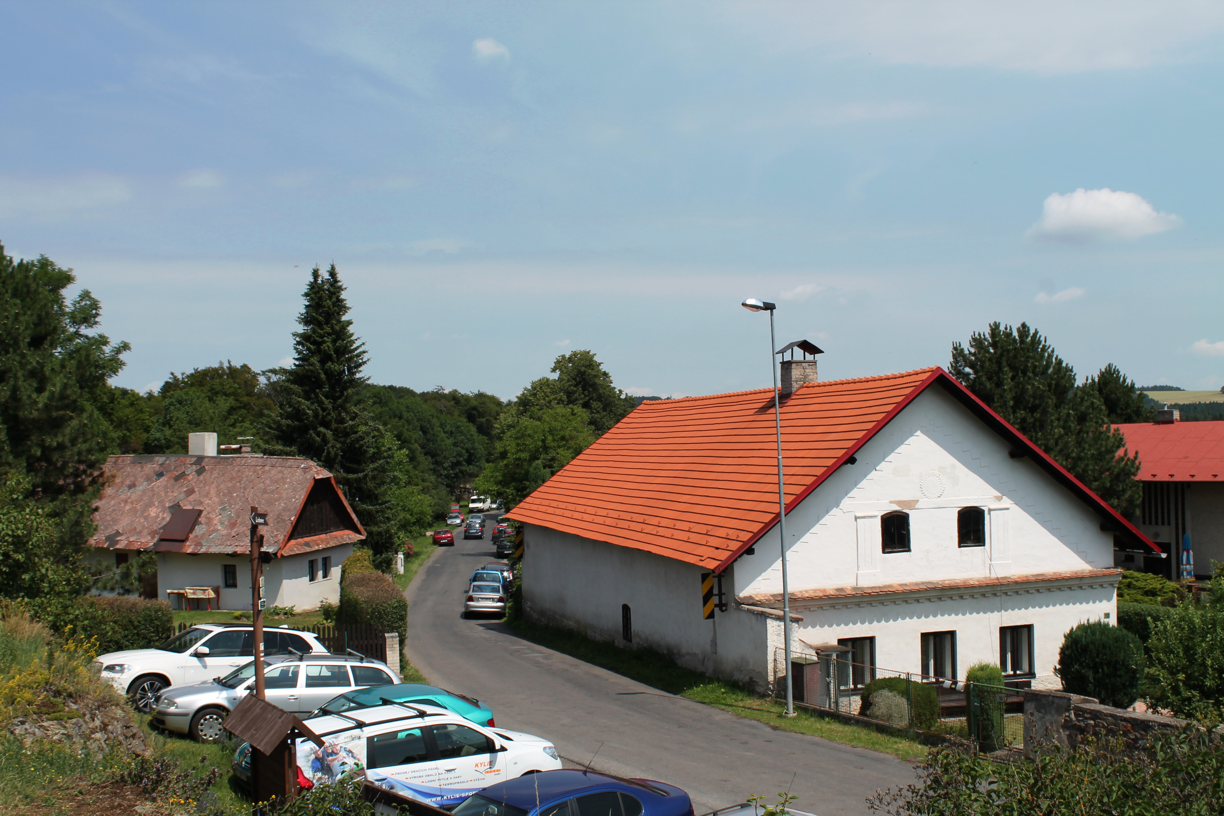 Podhradí, Třemošnice, Chrudim District, Czech Republic